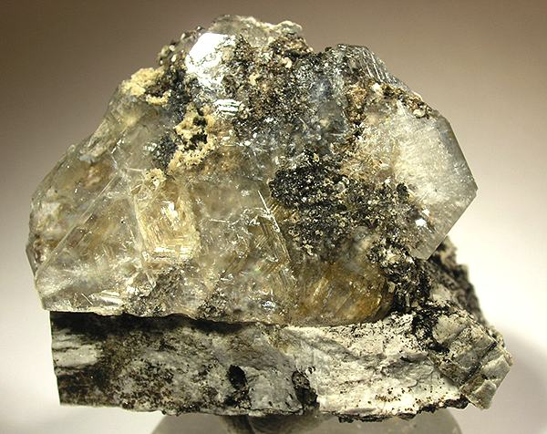 Catapleiite, Microcline Locality: Poudrette quarry (Demix quarry; Uni-Mix quarry; Desourdy quarry), Mont Saint-Hilaire, Rouville RCM, Montérégie, Québec, Canada (Locality at ) This is a crude but EXTREMELY large crystal for the species, that measures nearly 5 cm across and is about 1 cm thick . It does have some edge damage on a few upper faces to teh sides of the termination, not visible form teh display face in any case. Still, it is a monstrous single crystal of a species that normally forms thin, flat platy crystals. Thus, it may not be the prettiest one, but it IS up there in significance. The fat crystal sits perched on a shard of white feldspar matrix, standing straight up. It is included a bit (with aegerine?) and so the pictures are poor compared to the specimen because of the way light reflects when we shoot it - in person, it is somehwat included but not as dark on the front as you see it here. 5.2 x 4.8 x 4.4 cm